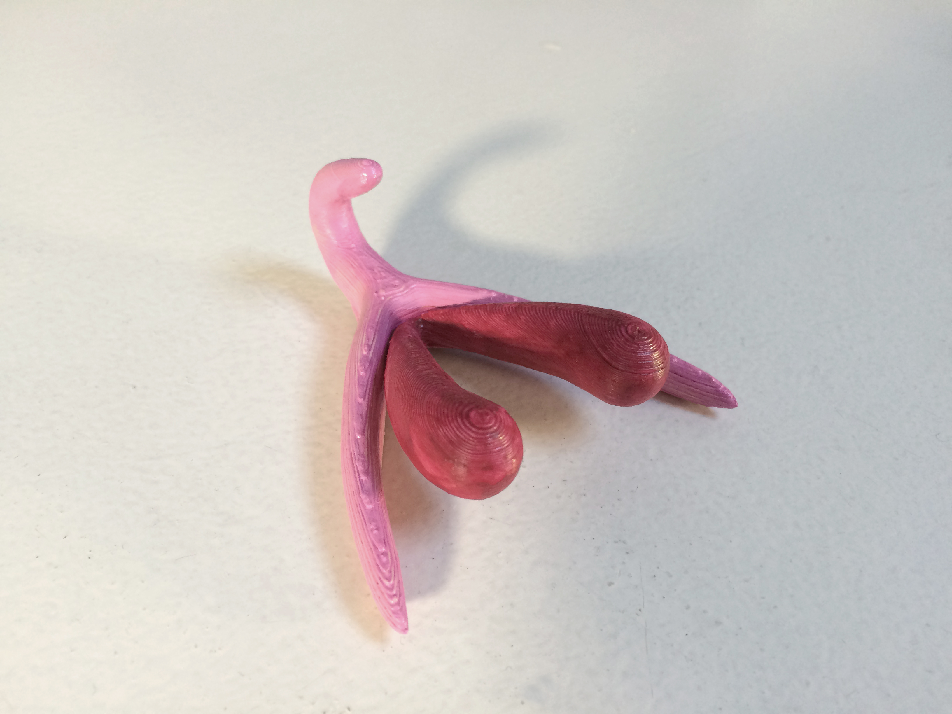 3D printing of clitoris model v1 (April 2016)